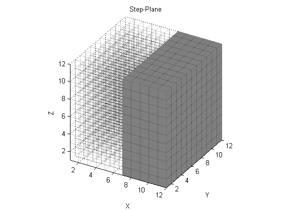 A 3D window straddling a smooth boundary surface between two uniform regions of a 3D image.